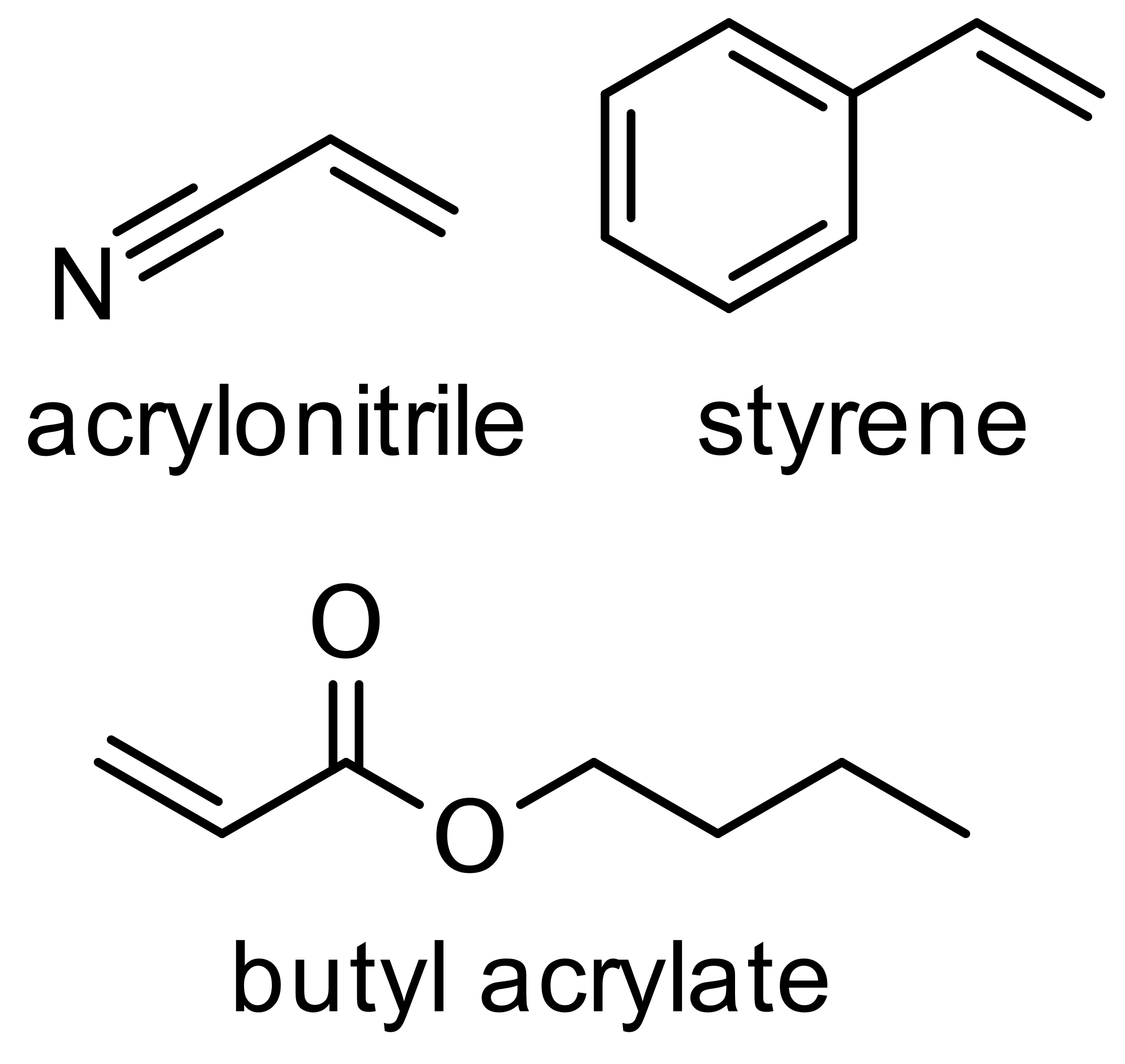 Structure of Acrylonitrile styrene acrylate